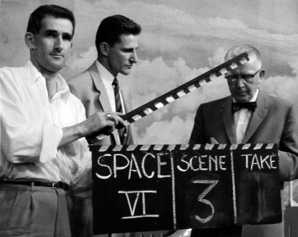 Man with a clapperboard as a scene is ready to be filmed. Production shot from KUHT-TV's Doctors in Space program with Drs. John Rider (center) and Hubertus Strughold (right).